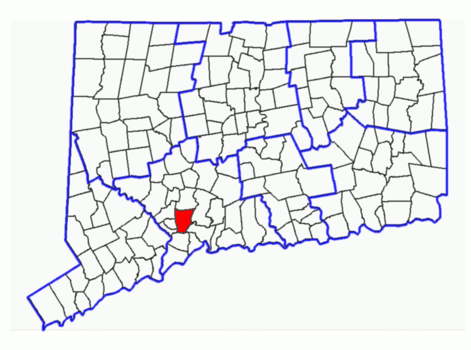 Subject: Map of Connecticut Townships with Woodbridge highlighted. Derived from sub-county SVG map of Connecticut at Libre Map Project using Adobe SVG viewer and Gimp 2.2.1.3